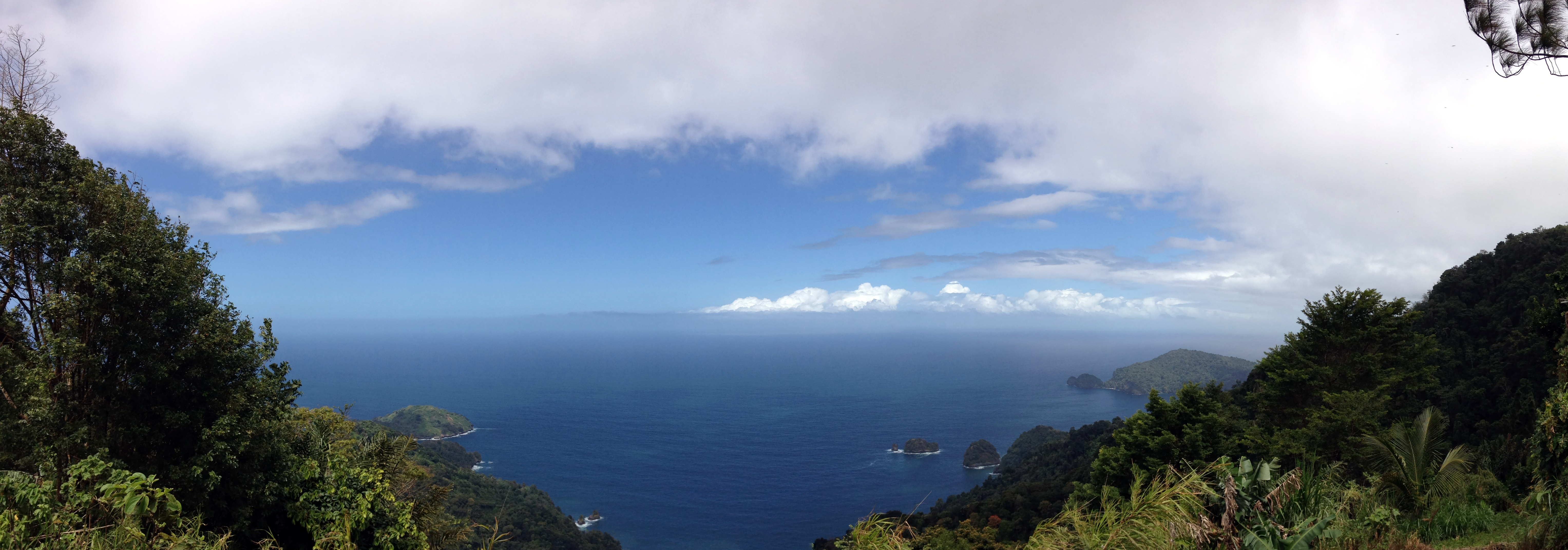 View of the Caribbean Sea from Paramin,Maraval,Trinidad & Tobago